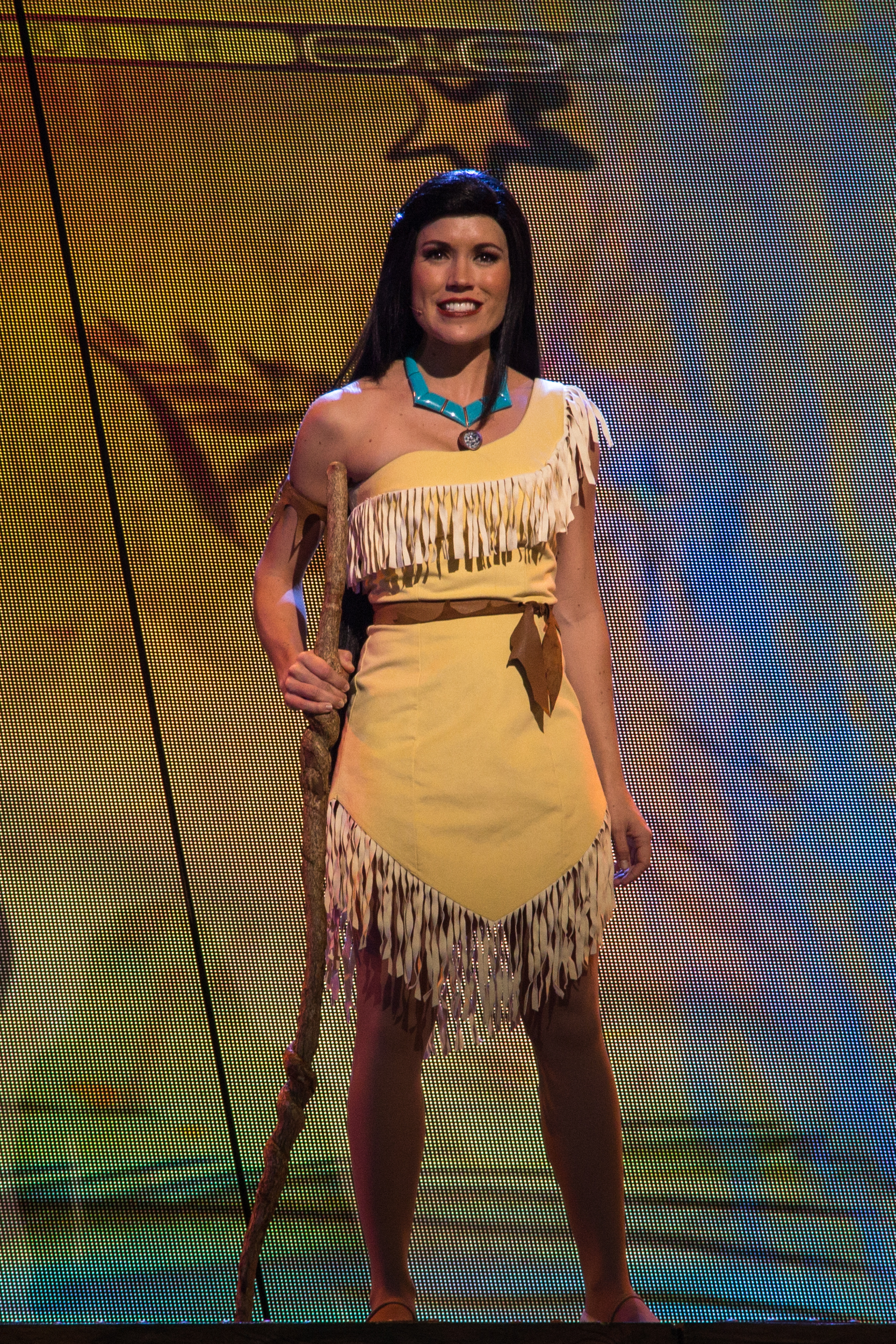 The fabulous "Mickey and the Magical Map" show at the Fantasyland Theatre in Disneyland.